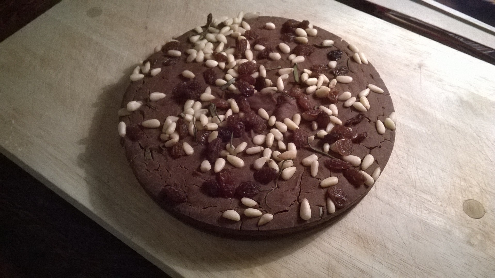 Castagnaccio with pine nuts and sultanas